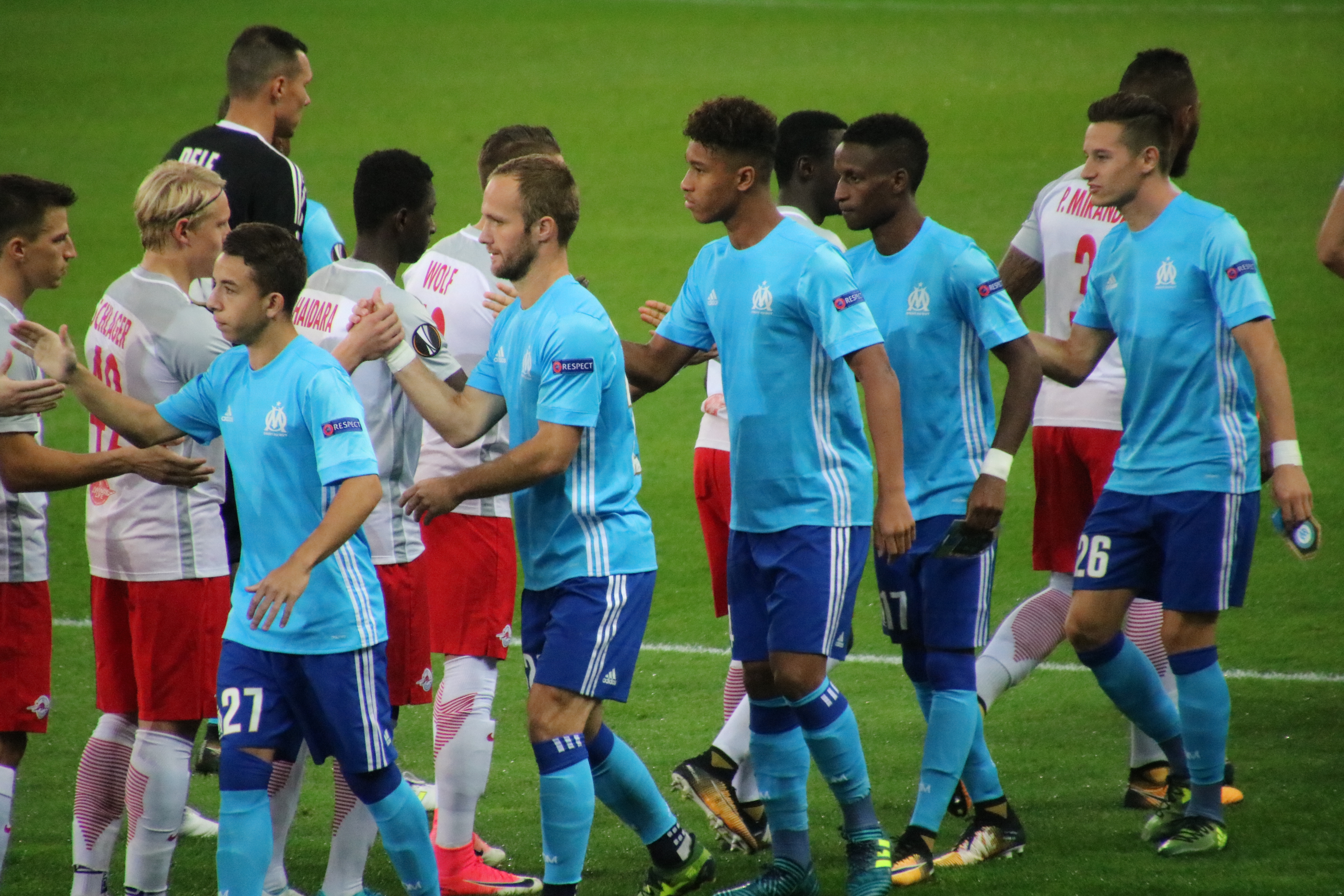 UEFA Euroleague group stage matchday 2